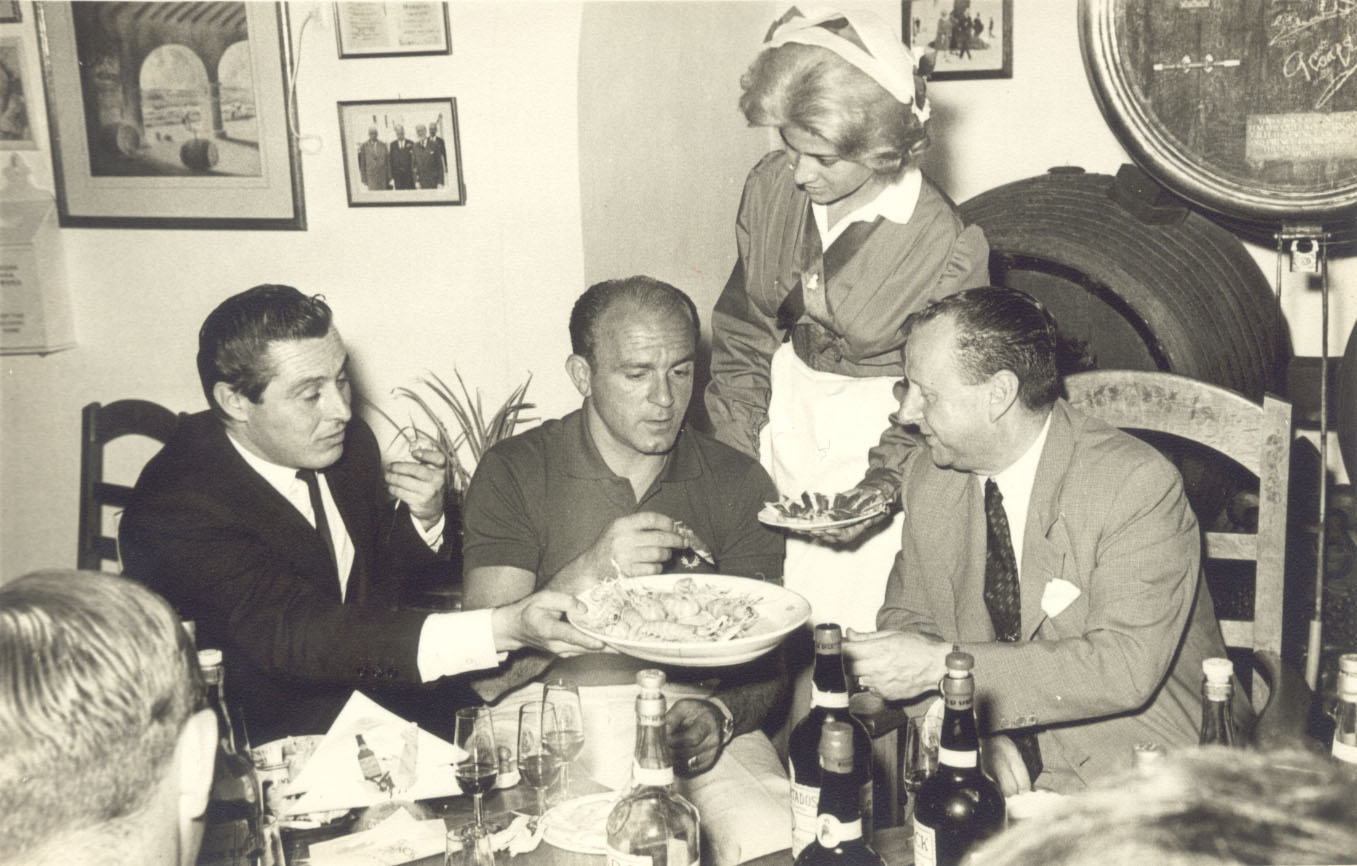 Argentine footballer Alfredo Di Stéfano (at center) while tasting the Williams & Humbert Ltd. wines, in the Don Guido room of that company. On his right, Bernardo Muñoz Cortijo; on his left, Vicente González Bruñón, manager of W&H.